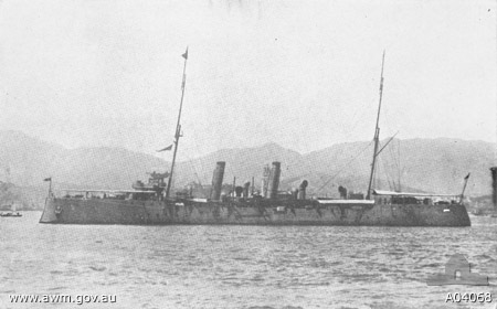 AWM Caption : "The light cruiser HMAS Psyche in the harbour [Hong Kong]. She had been in the escort force for the capture of Samoa by New Zealand forces in August 1914 and later escorted the New Zealand ships of the first convoy to King George's Sound, Albany, WA, in October 1914. Psyche subsequently participated in naval operations in the Indian Ocean and off the Eastern Australian coast".